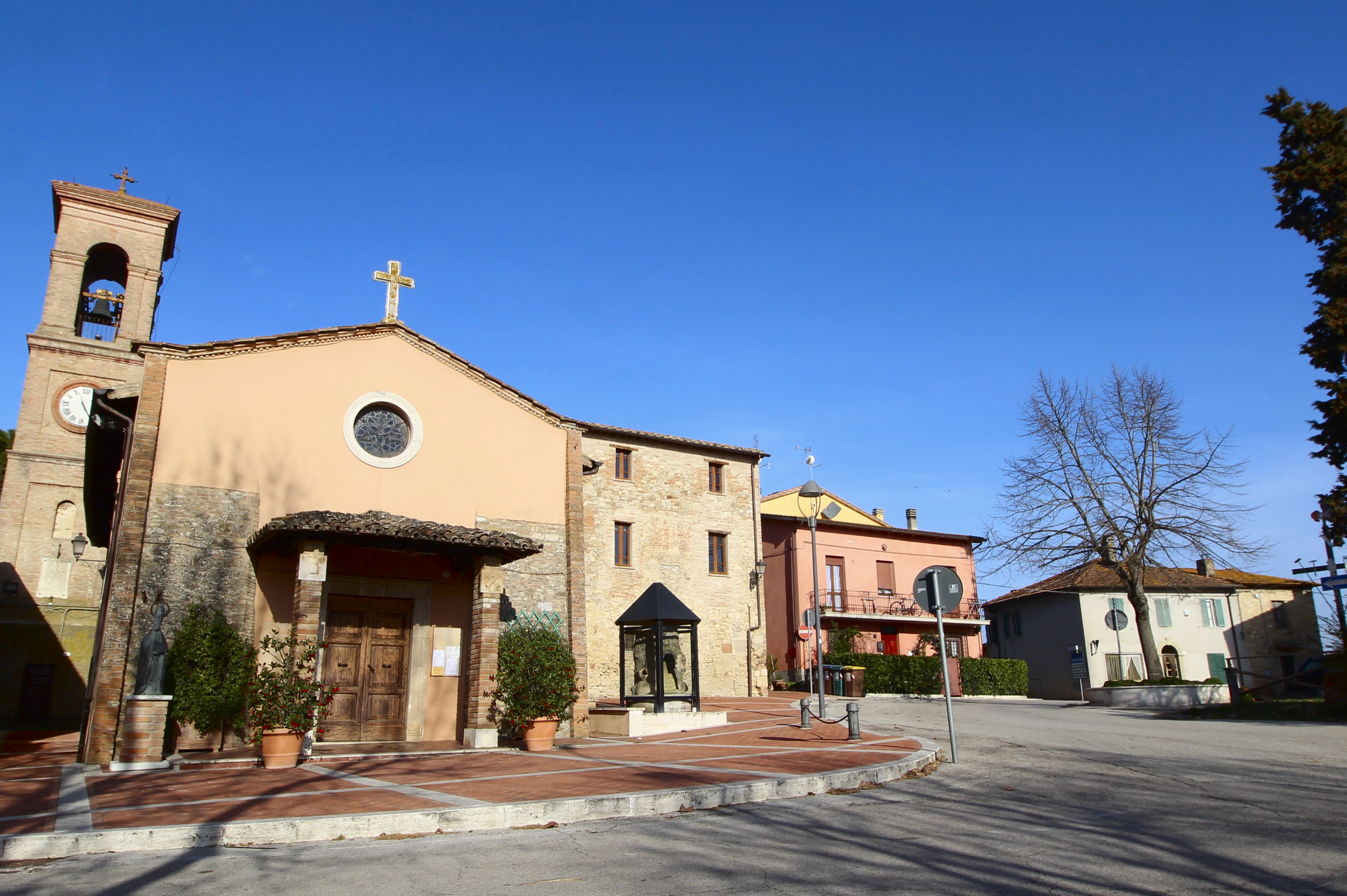 Badiola, hamlet of Marsciano, Province of Perugia, Umbria, Italy